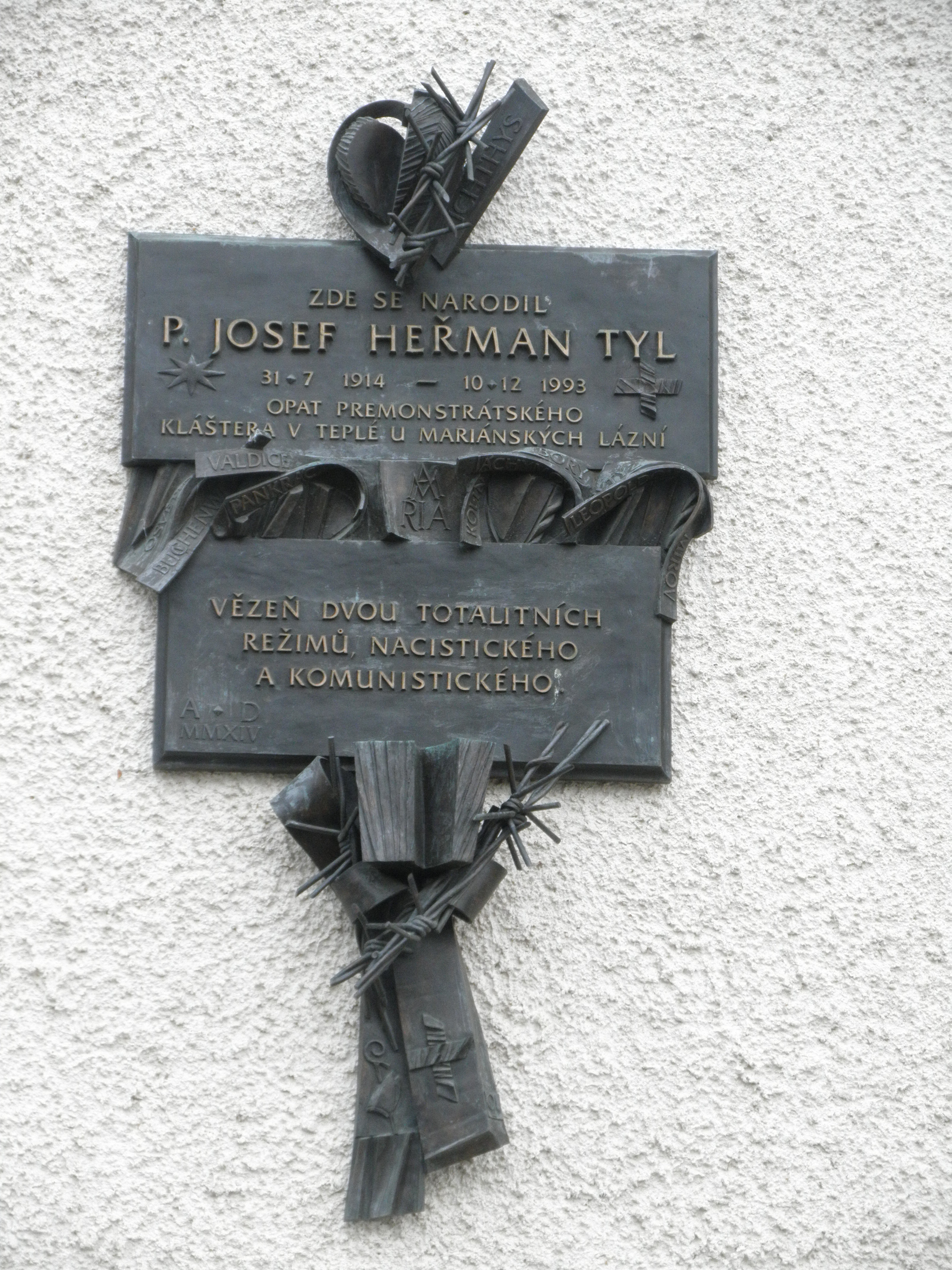 Memorial plaque dedicated to Josef Heřman Tyl in his birthplace in Cakov.